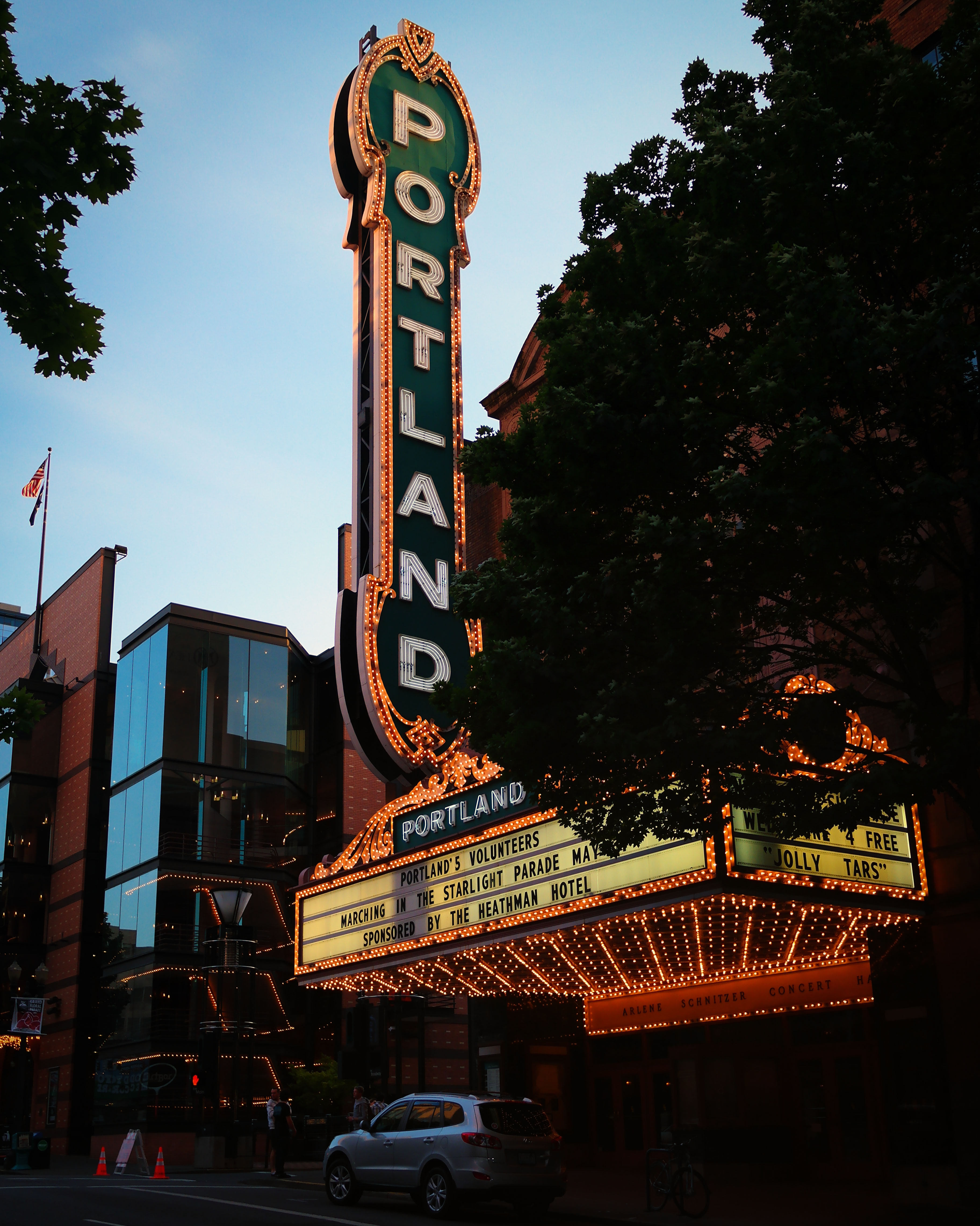 A view of the Portland marquee at the Arlene Schnitzer Concert Hall in Portland, Oregon